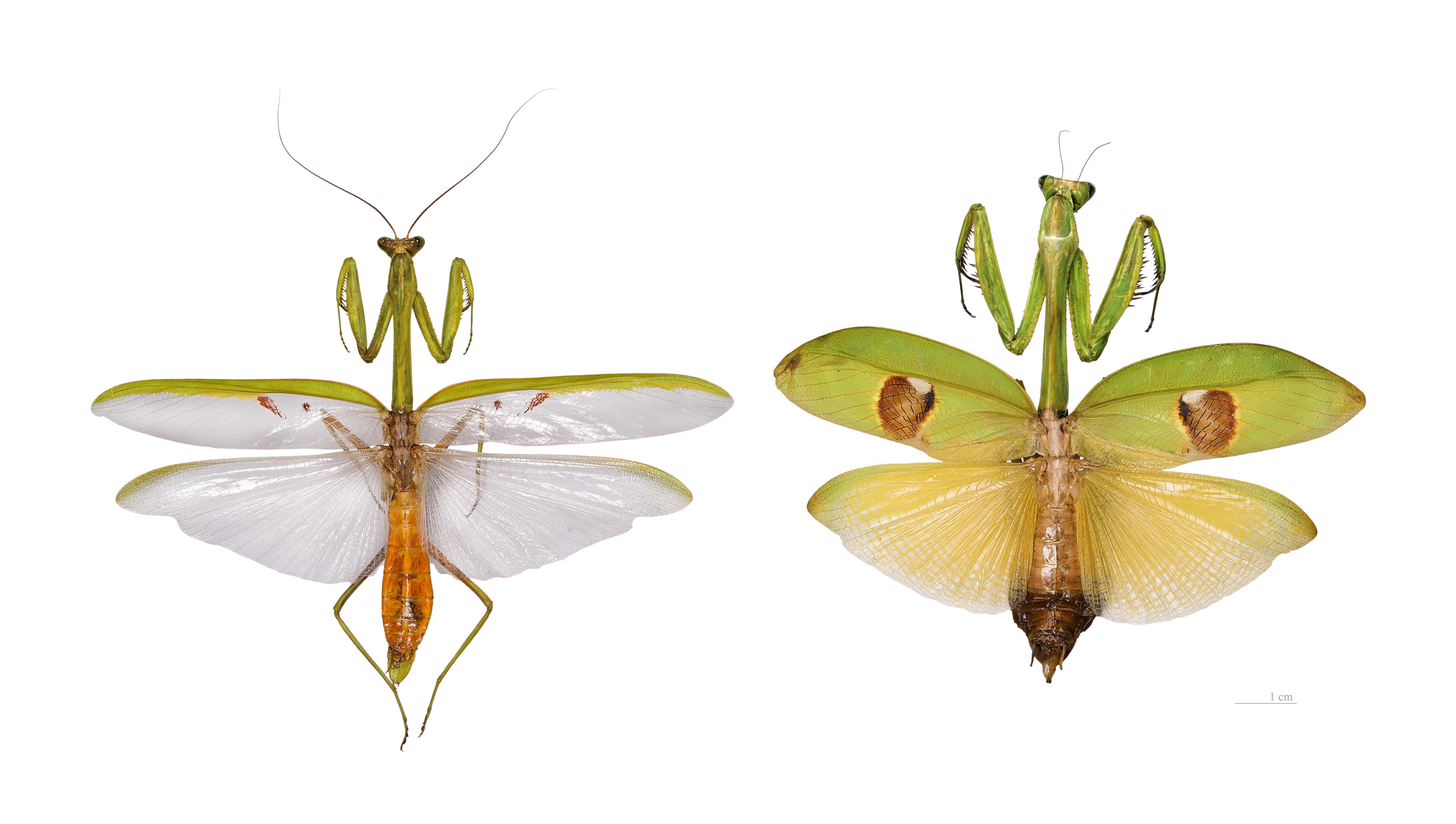 ♂ and ♀ - Flying position Locality : Kouroru, Summit "Monkey Mountain", French Guiana.